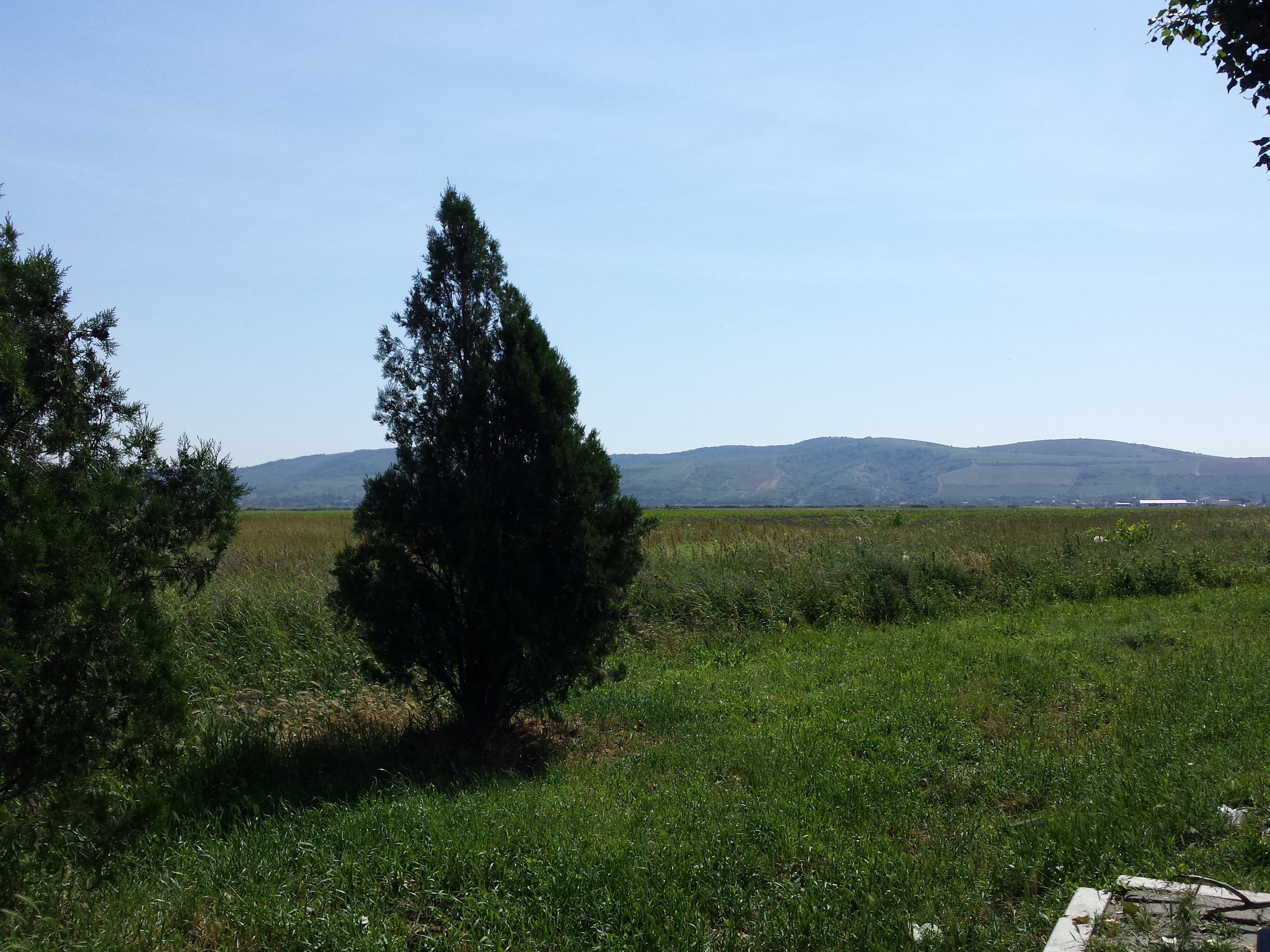 The countryside nearby Taut commune.